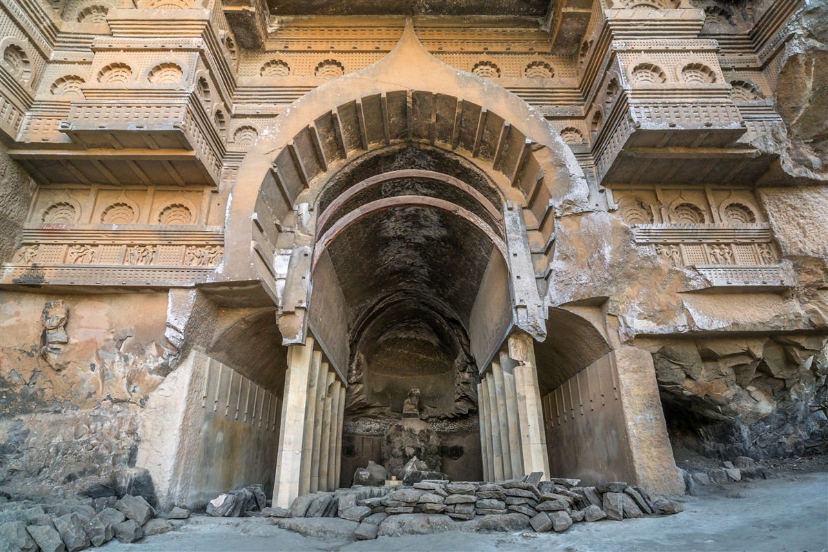 Kondana Chaitya